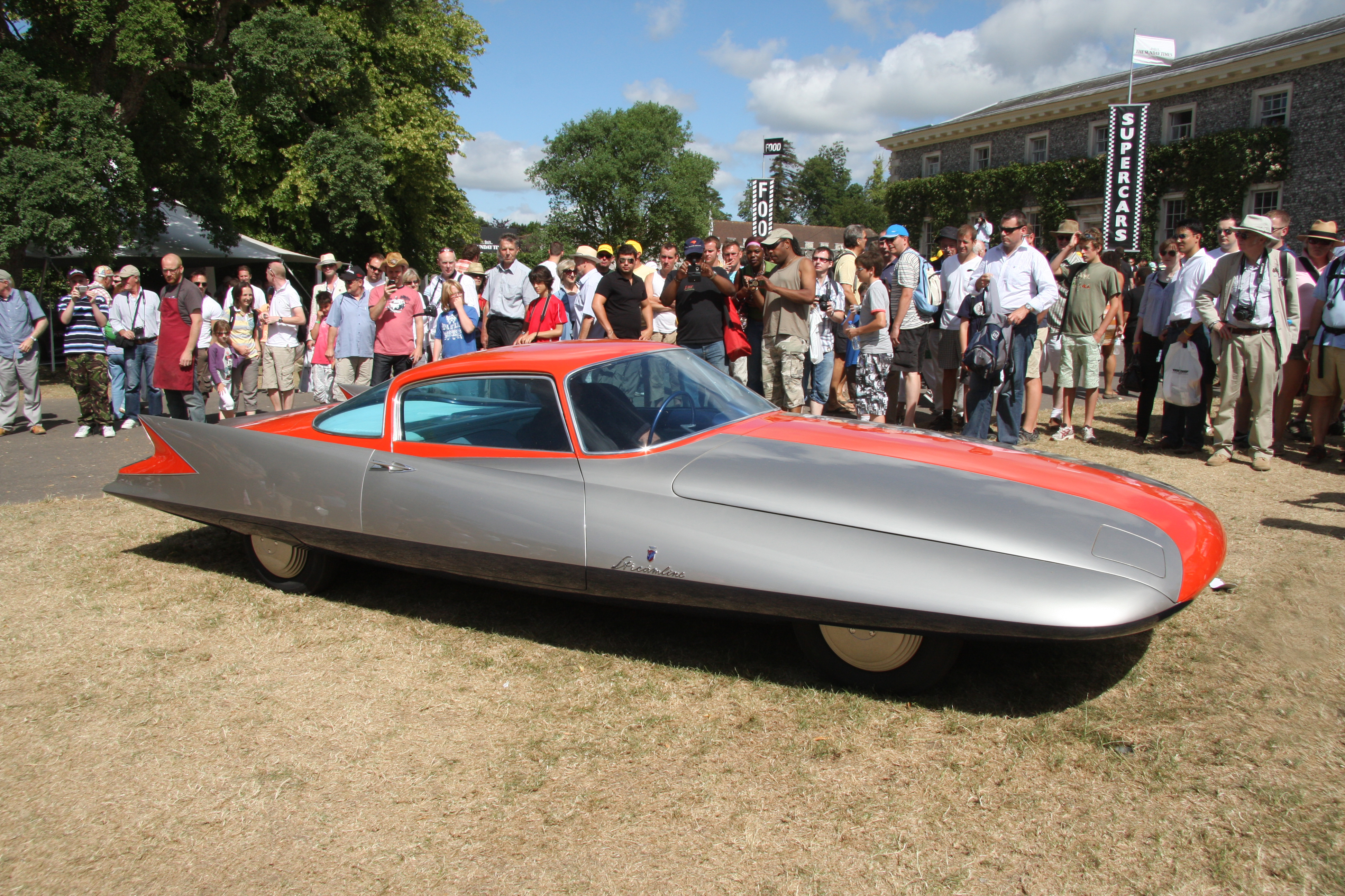 1955 Ghia Gilda Streamline X Coupé. This was taken when the AiResearch gas turbine engine was started.